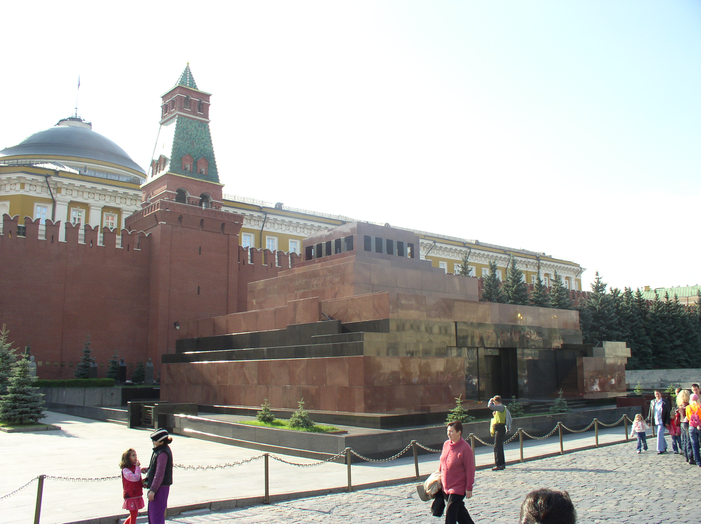 Lenin's Mausoleum. Moscow, Russia.